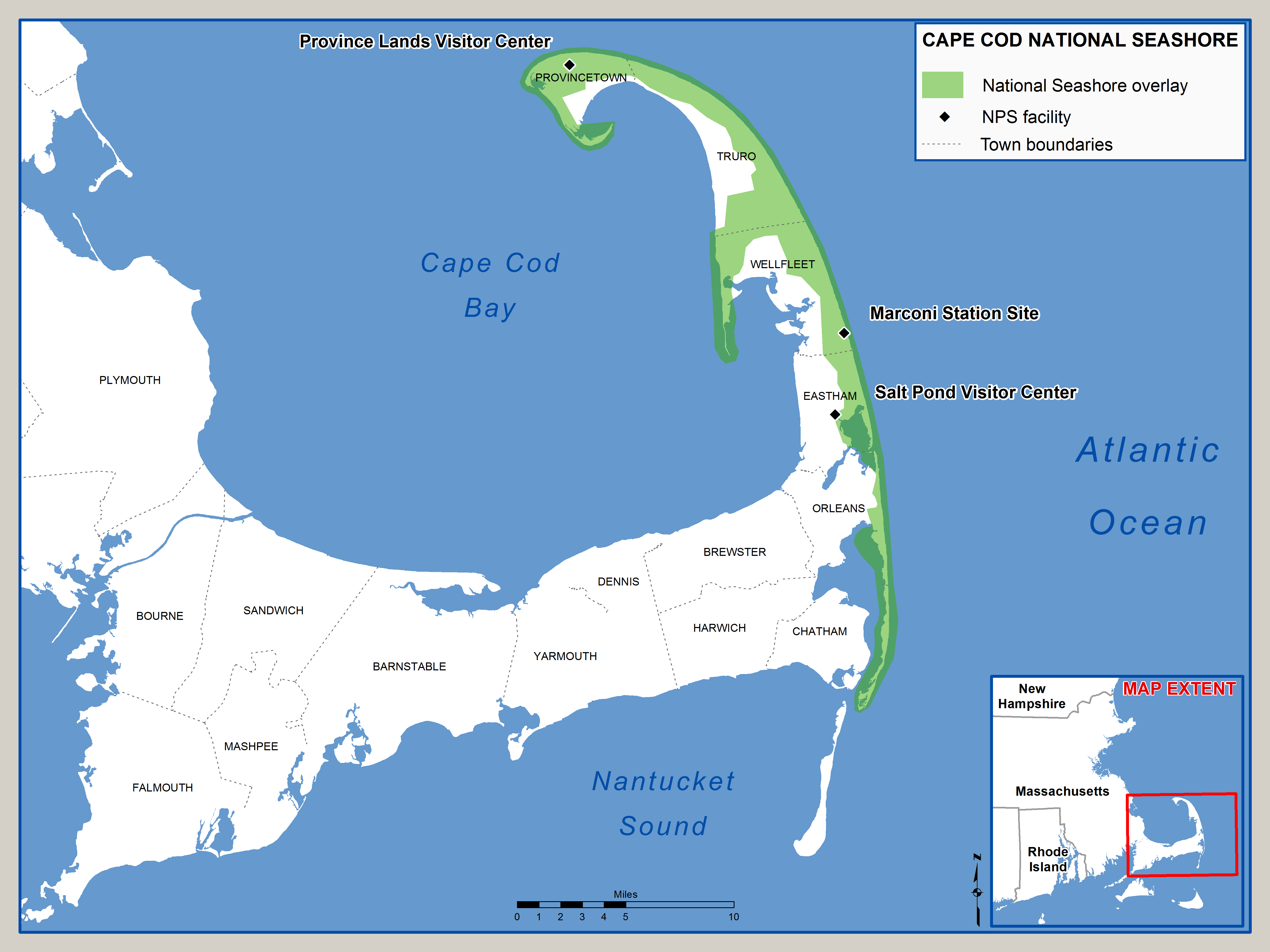 Depicts (in green shading) the land on Cape Cod contained within the Cape Cod National Seashore.